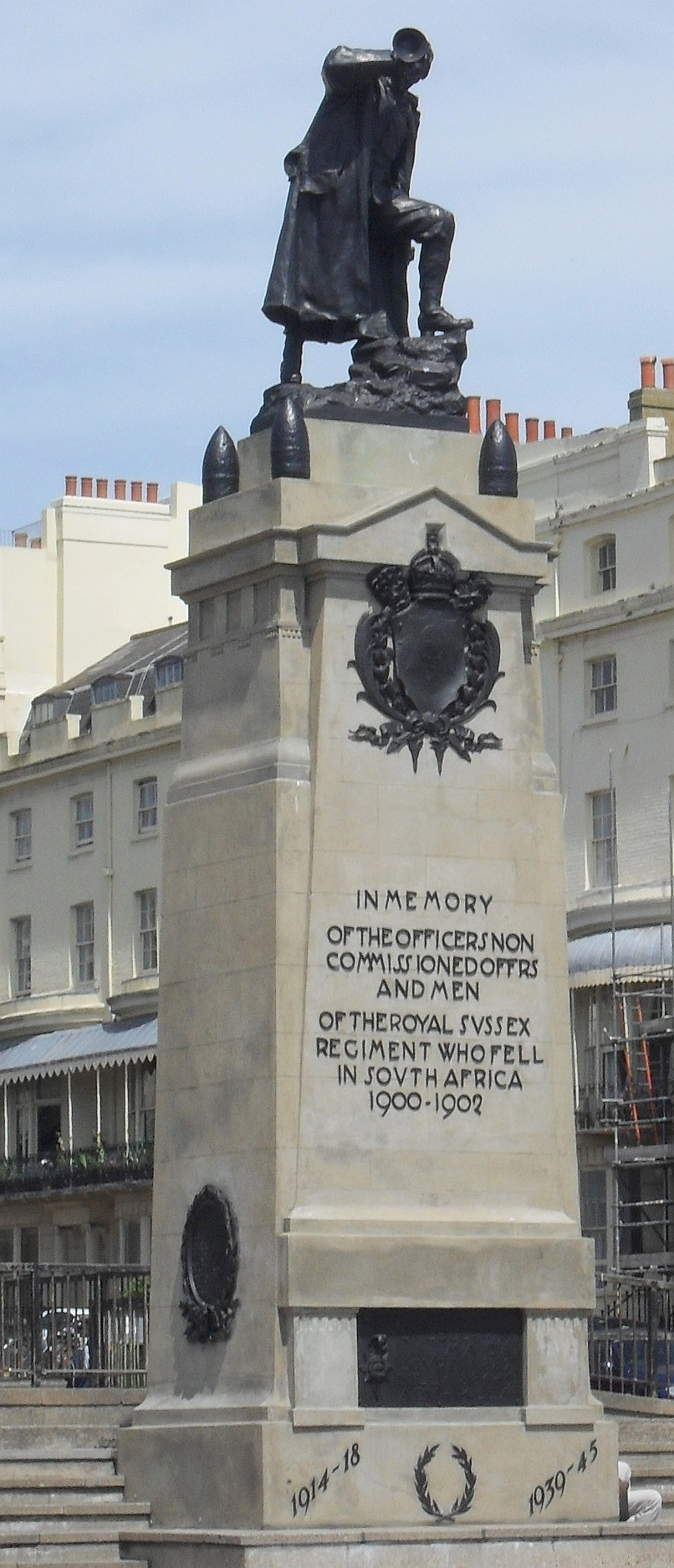 South African War Memorial, Regency Square, Brighton, City of Brighton and Hove, England, commemorating members of the Royal Sussex Regiment who died in the Boer War. Designed by Sir John Simpson and sculpted in 1904 by Charles Hartwell.